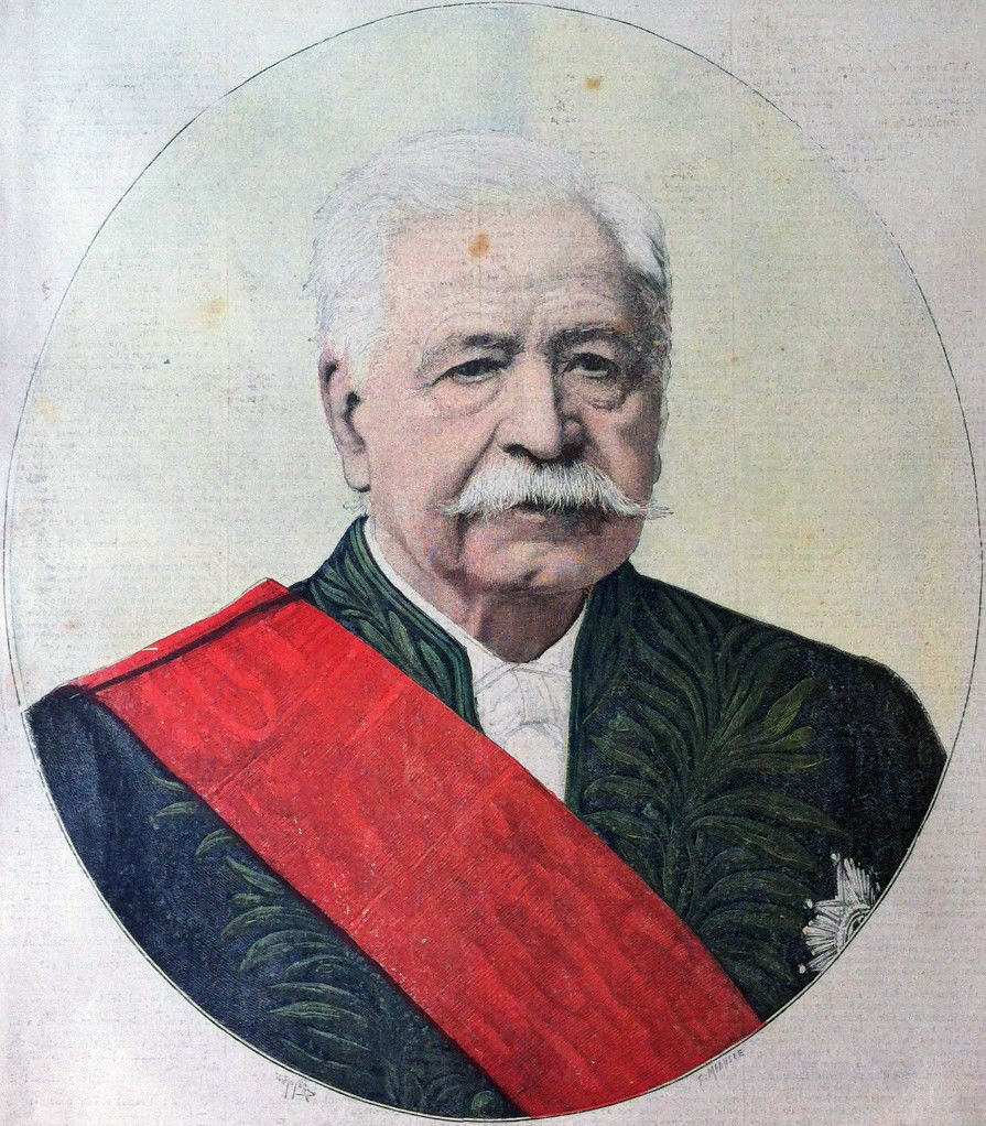 1894 Portrait of Ferdinand de Lesseps, Le Journal (1894)